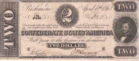 2 Dollars Confederate States of America banknote dated April 6, 1863.